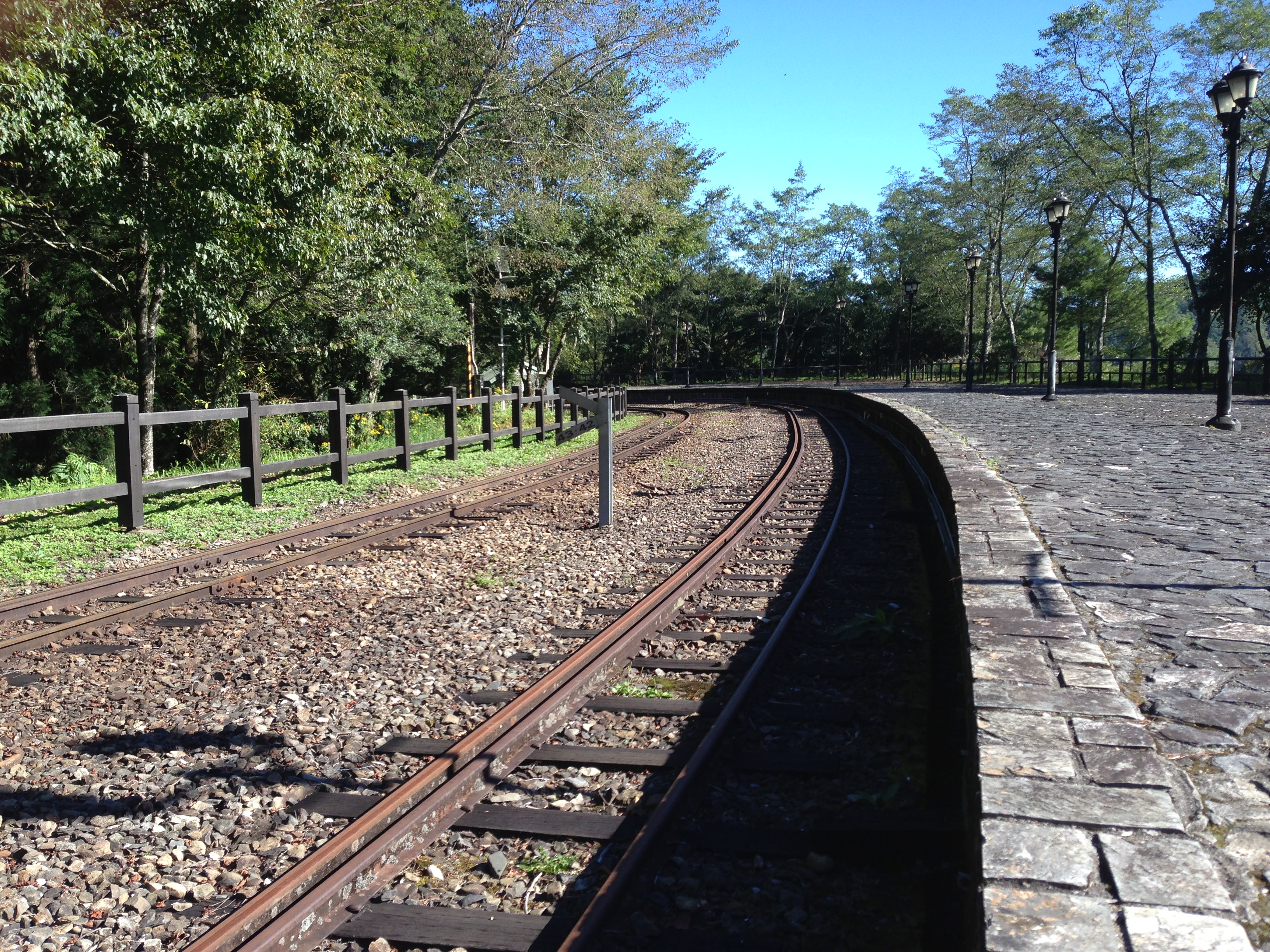 Shizifendao Station of Alishan Forest Railway, Taiwan.